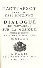 Title page of Plutarch's "Dialogue on Music" ("Dialogue sur la musique") translated into French by French physician Pierre-Jean Burette (1665-1747)